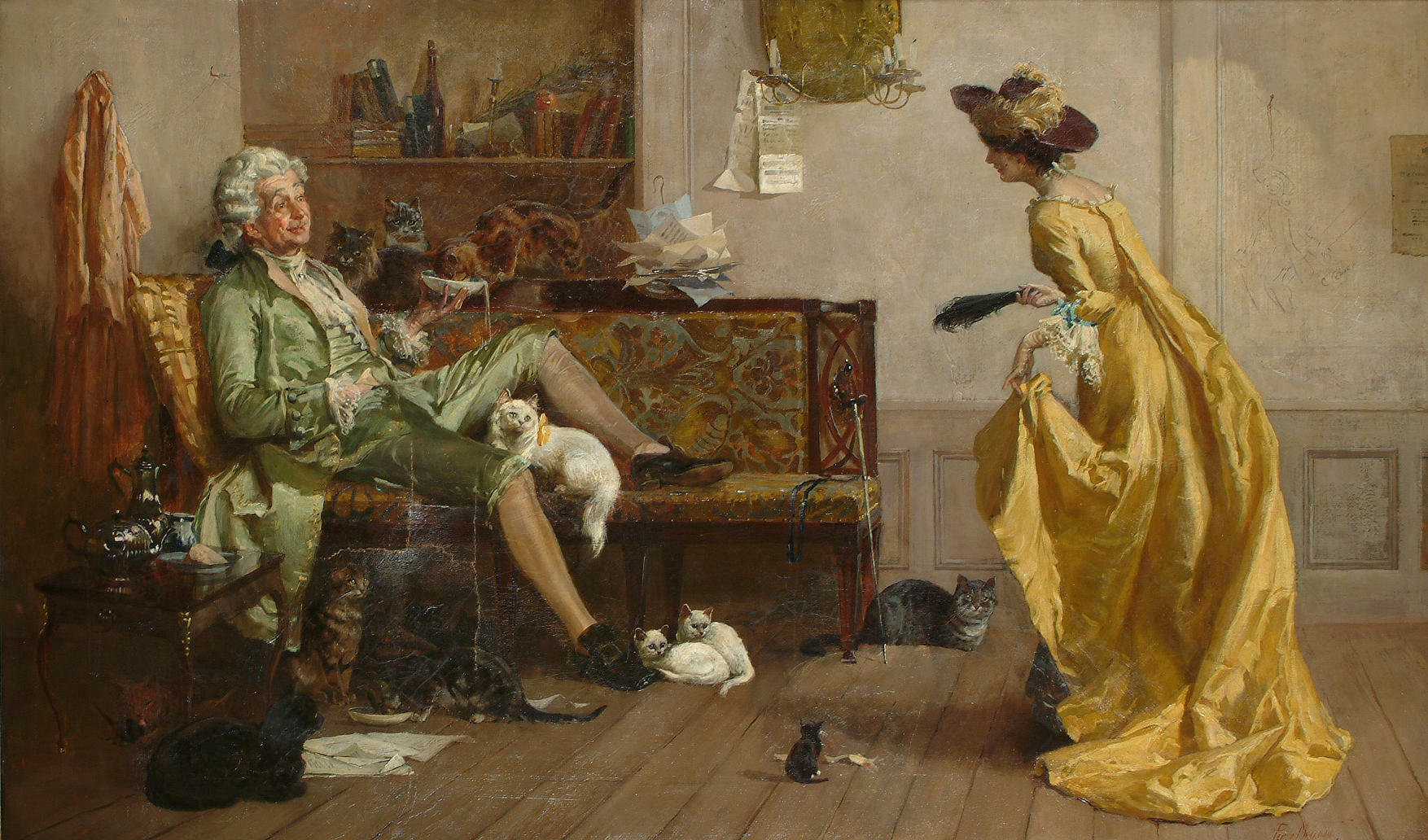 Peg Woffington visiting an eccentric cat lover, signed, also indistinctly inscribed on a label attached to the reverse, oil on canvas, 72 x 118 cm